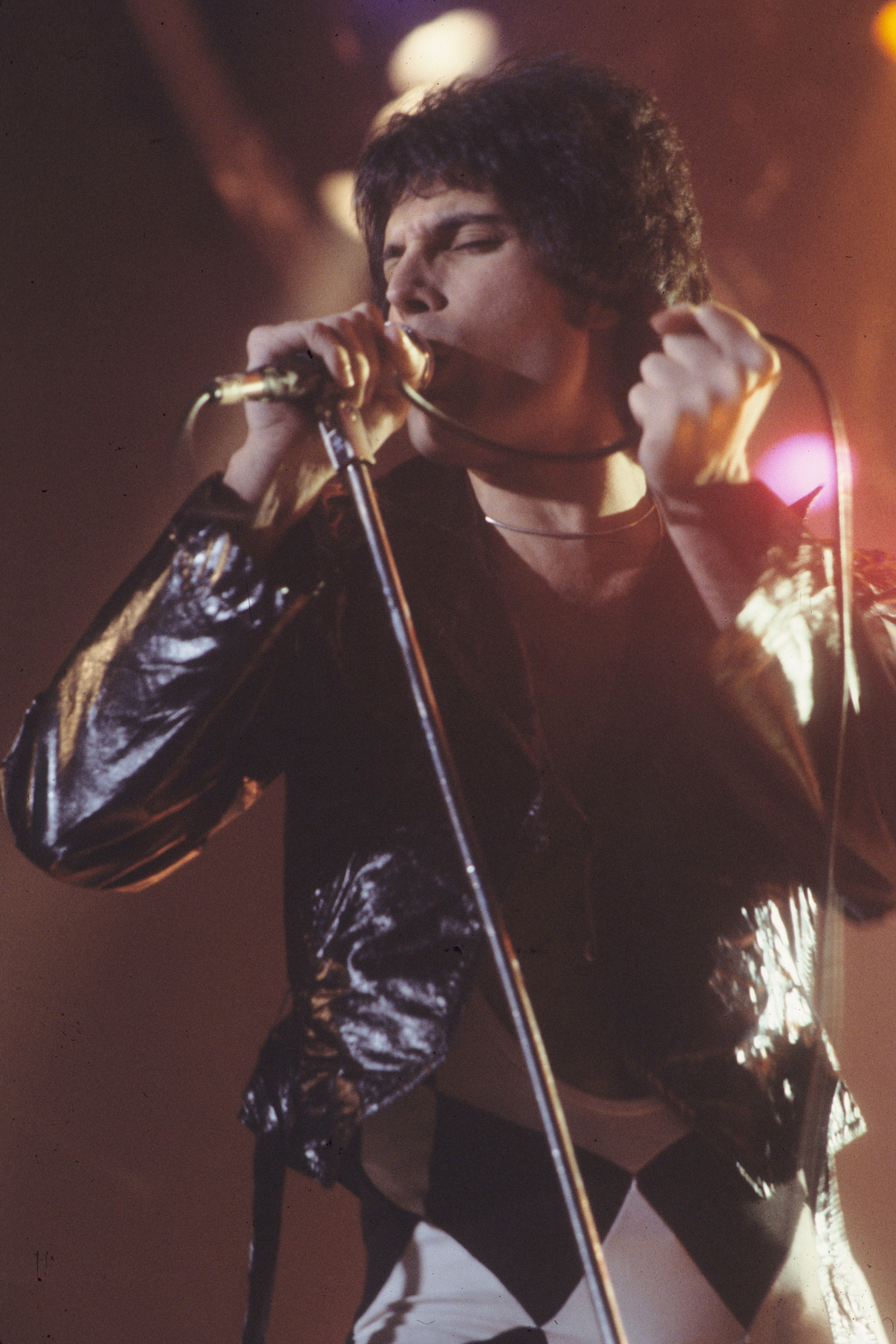 Freddie Mercury in New Haven, CT at a WPLR Show.